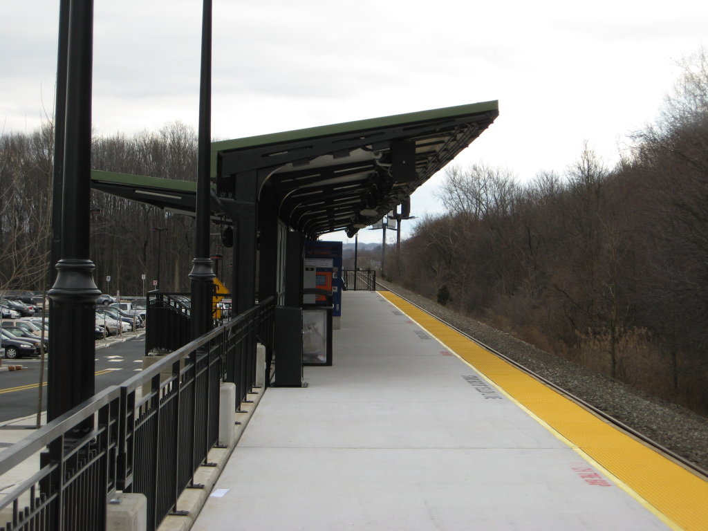 Wayne-Route 23 station platform, looking into the inbound direction.